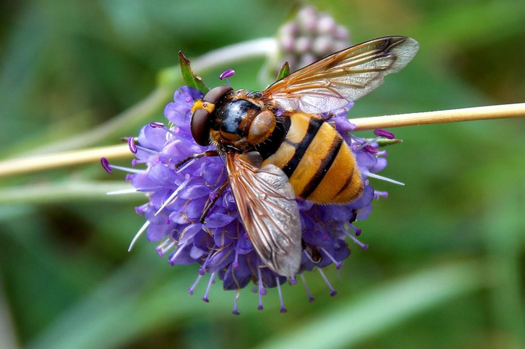 Hornet Mimic Hoverfly (Volucella inanis) on Devil's-bit Scabious (Succisa pratensis) - southern England